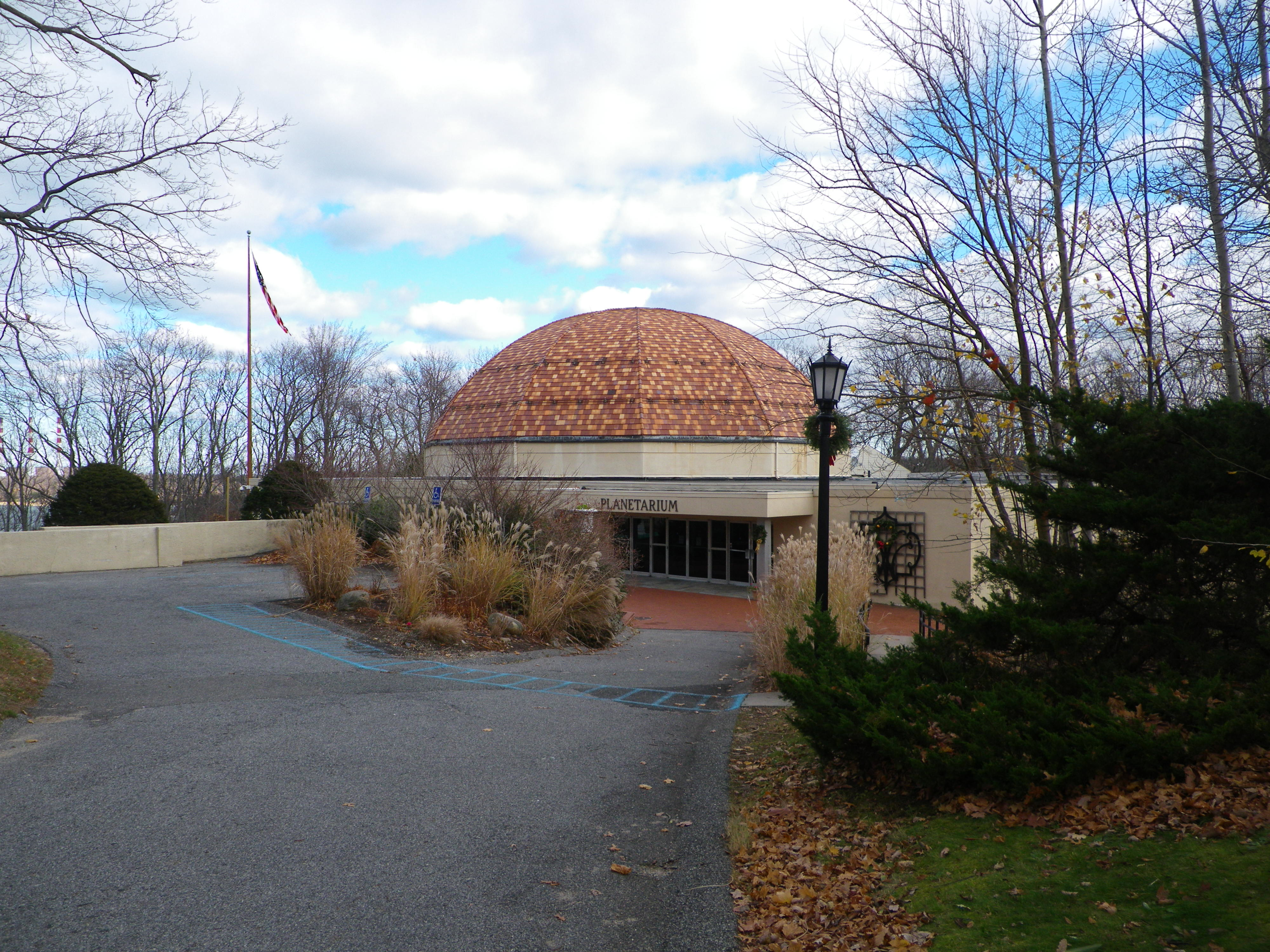 Planetarium at Vanderbilt Museum, Centerport, New York